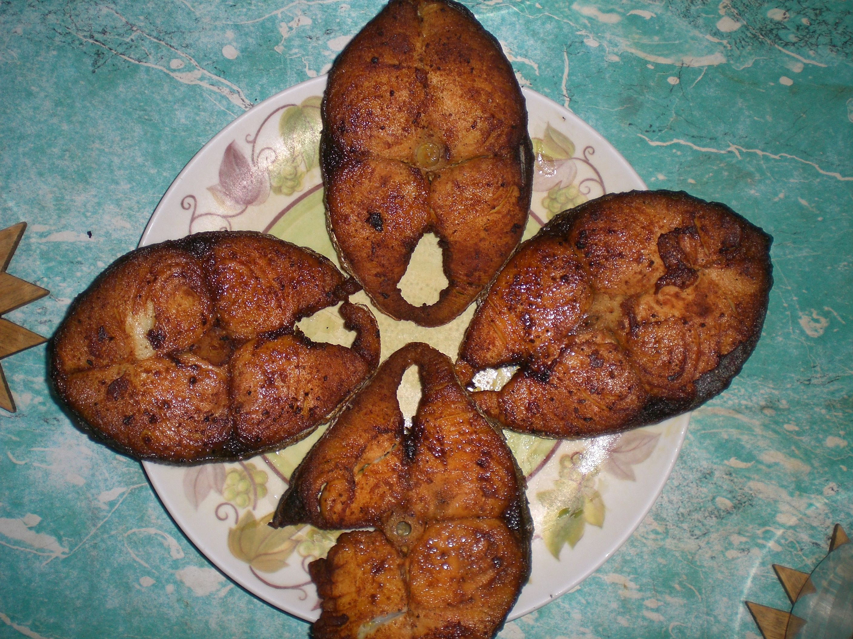 South Indian Style Indian Fish Fry